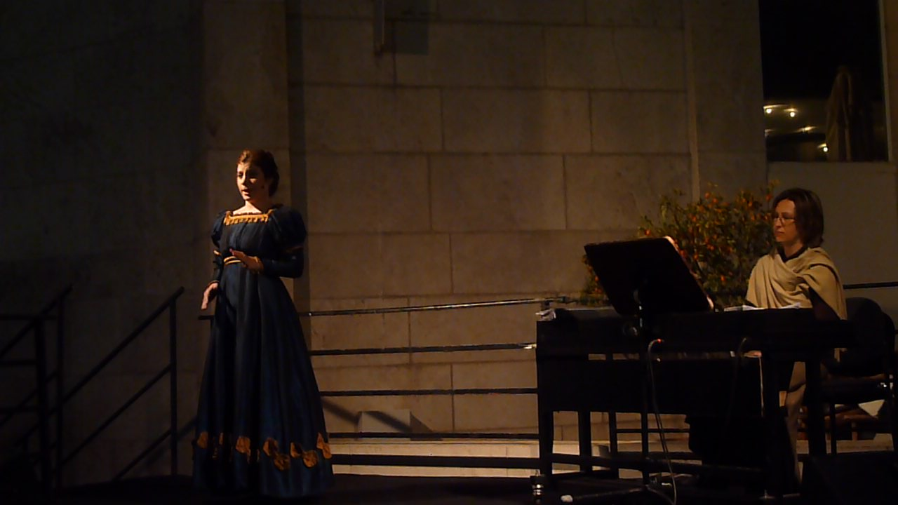 Opera singing at the Opening of the Tel Aviv Art Year 2012, Tel Aviv Museum of Art